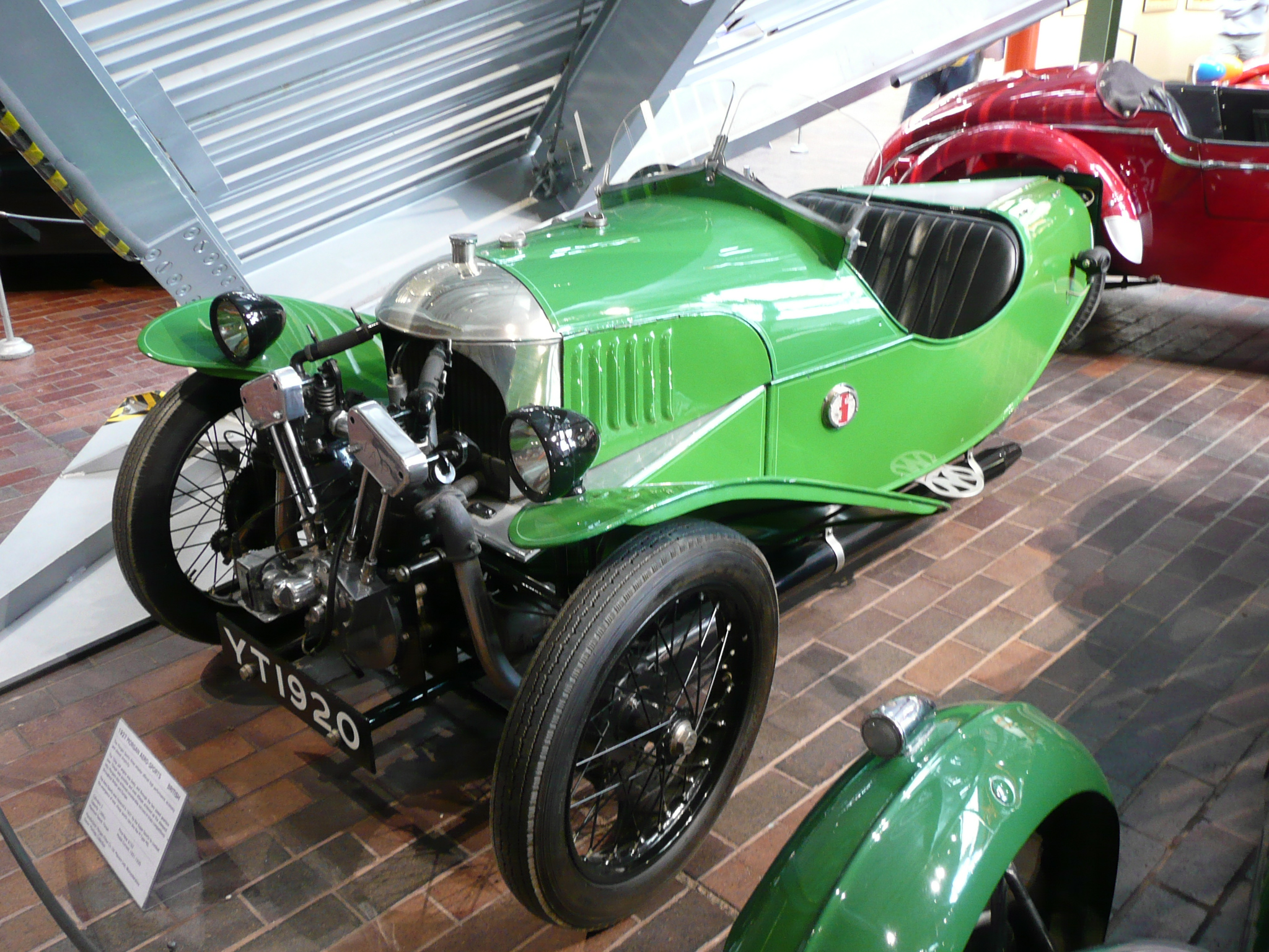 1927 Morgan Aero-Sports, National Motor Museum in Beaulieu.